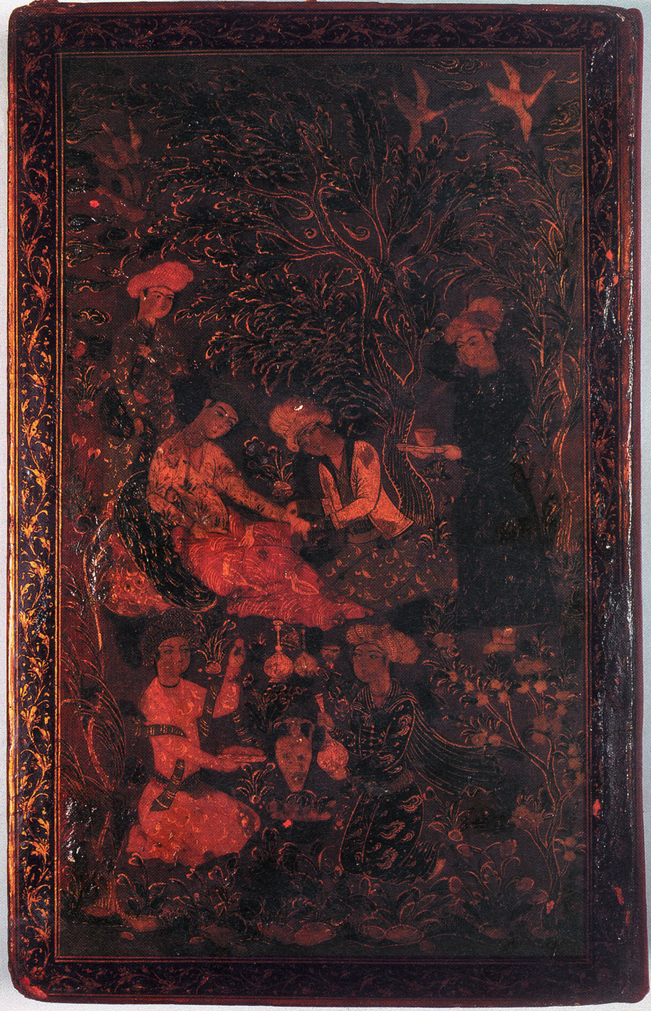 Image is taken from the cover of a medieval manuscript of Avicenna's Canon of Medicine, kept at the Wellcome Library in London.